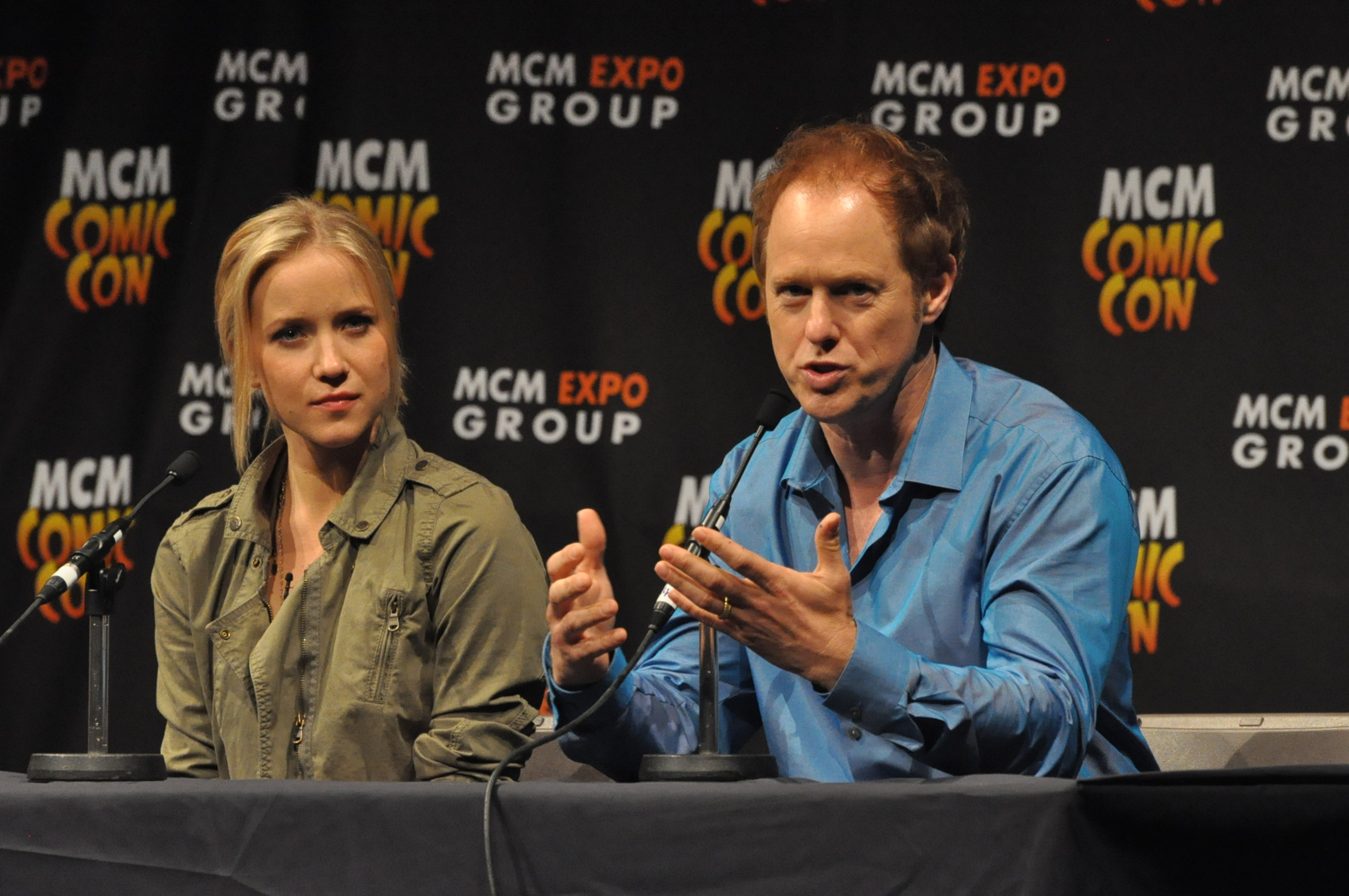 DSC_0650 MCM London Comic Con, Once Upon A Time Panel with Jane Espenson, Raphael Sbarge, Keegan Connor Tracy and Jessy Schram.